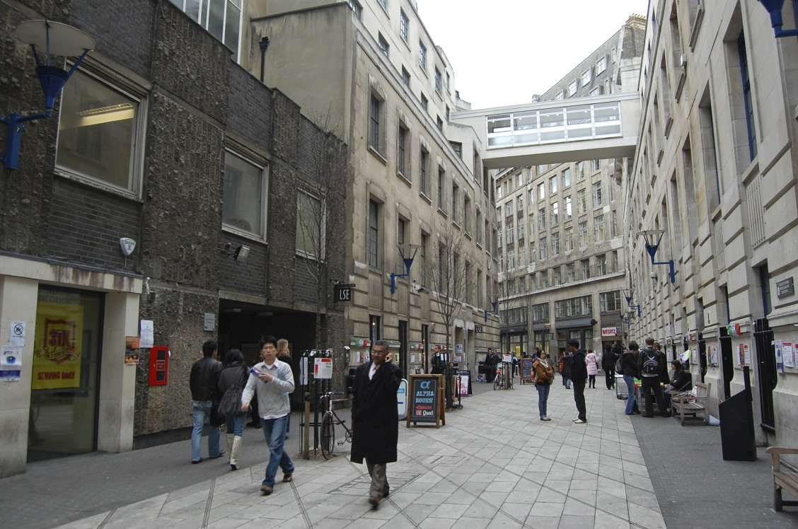 LSE, Houghton Street, London